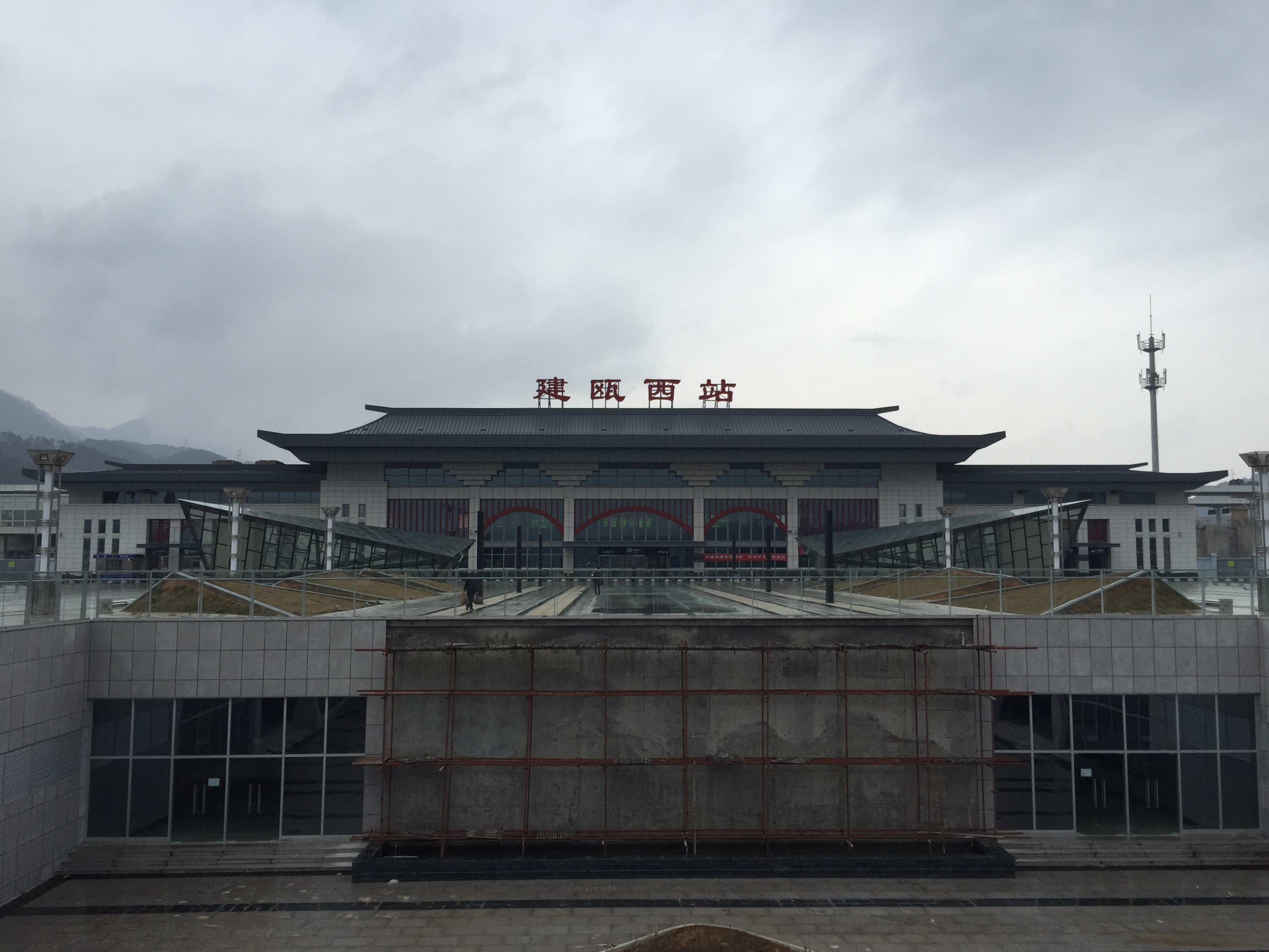 Facade from the square.